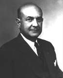 Louis A. Johnson, former United States Secretary of Defense.